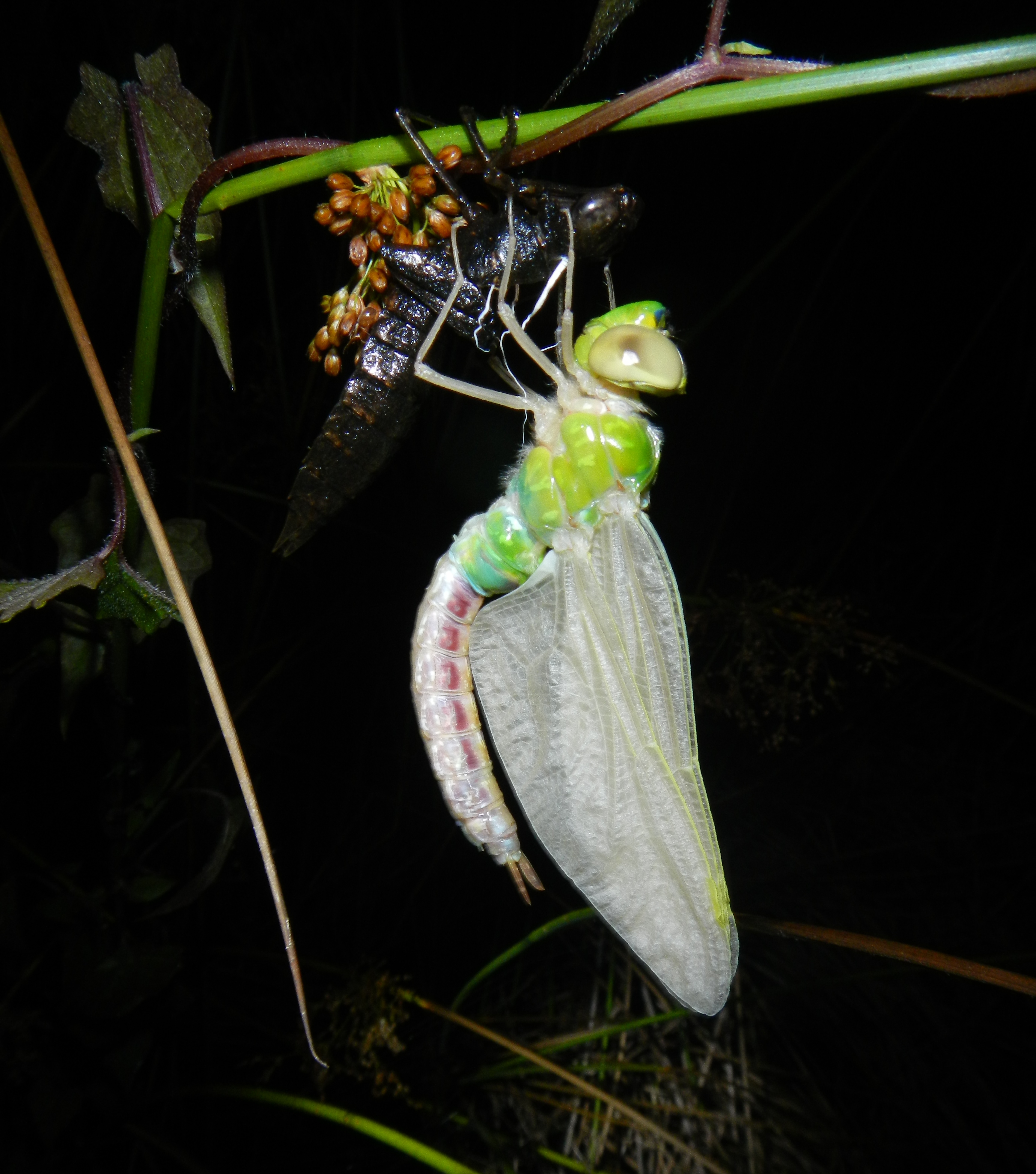 A dragonfly emerging at the University of Mississippi Field Station.